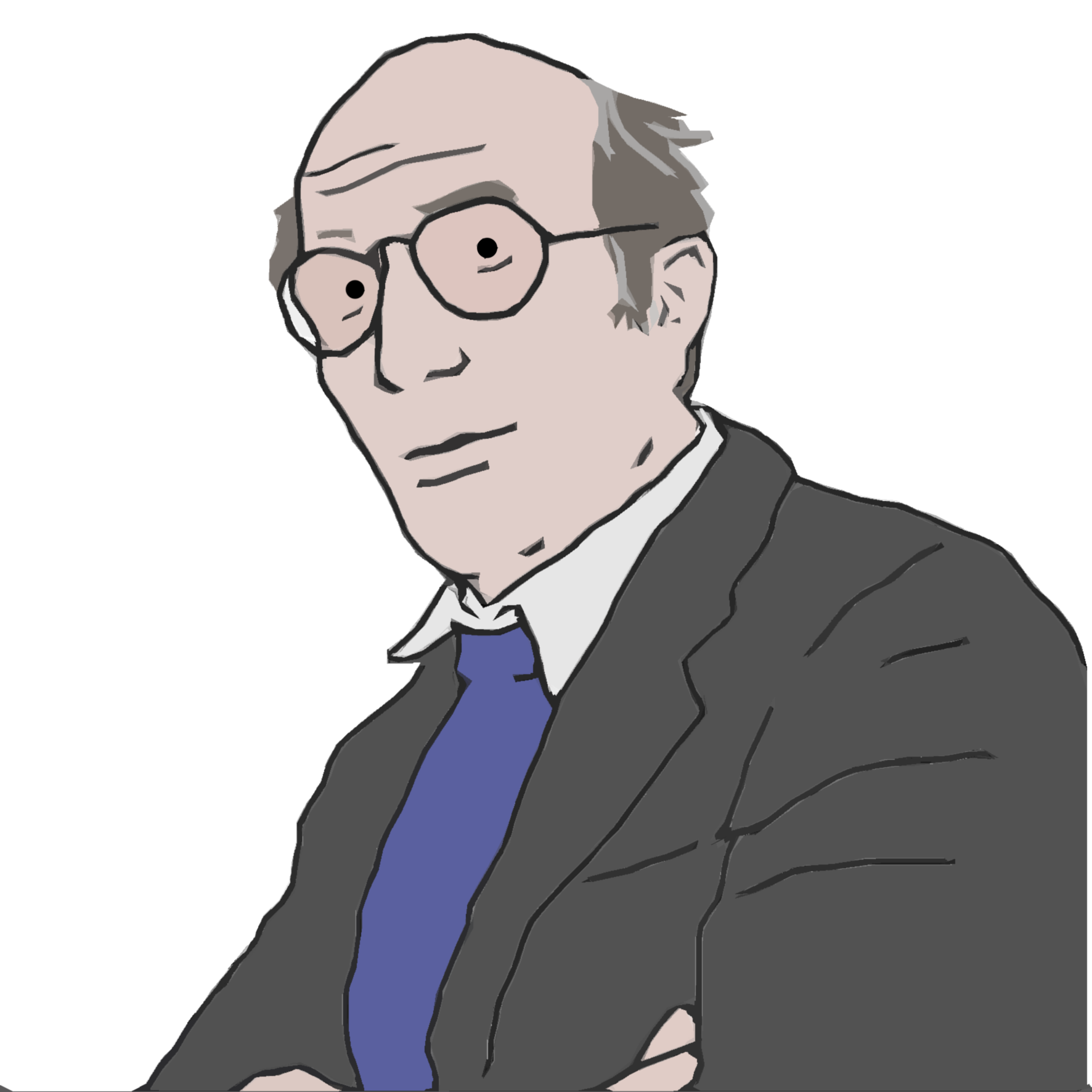 Niklas Luhmann